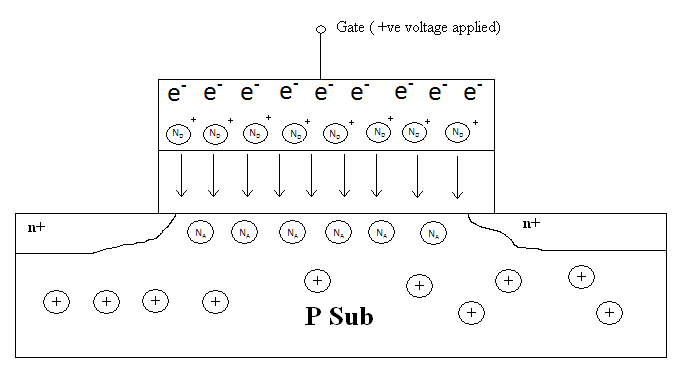 The arrangement of carriers in a doped poly